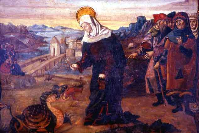 St. Martha and the dragon, attributed to André Abellon, dominic painter. St. Marie Magdaleine church at Saint-Maximin-la-Sainte-Baume (Var, France)